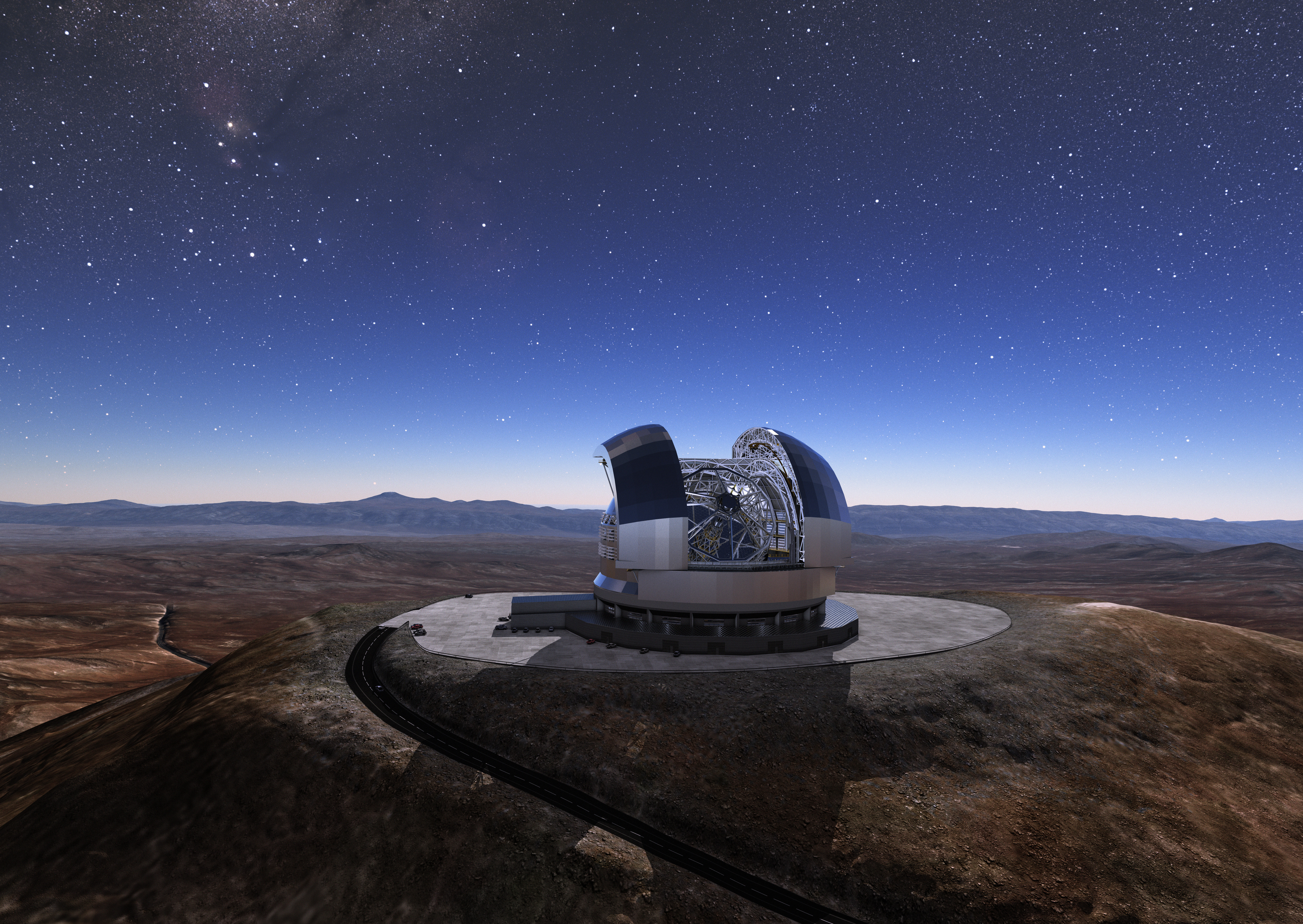 The Cerro Amazones mountain in the Chilean desert, near ESO's Paranal Observatory, will be the site for the Extremely Large Telescope (ELT), which, with its 39-metre diameter mirror, will be the world’s biggest eye on the sky. Here, an artist's rendering shows how the telescope will look on the mountain when it is complete in 2024.